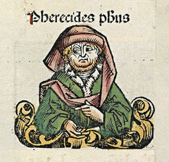 Illustration from the Nuremberg Chronicle